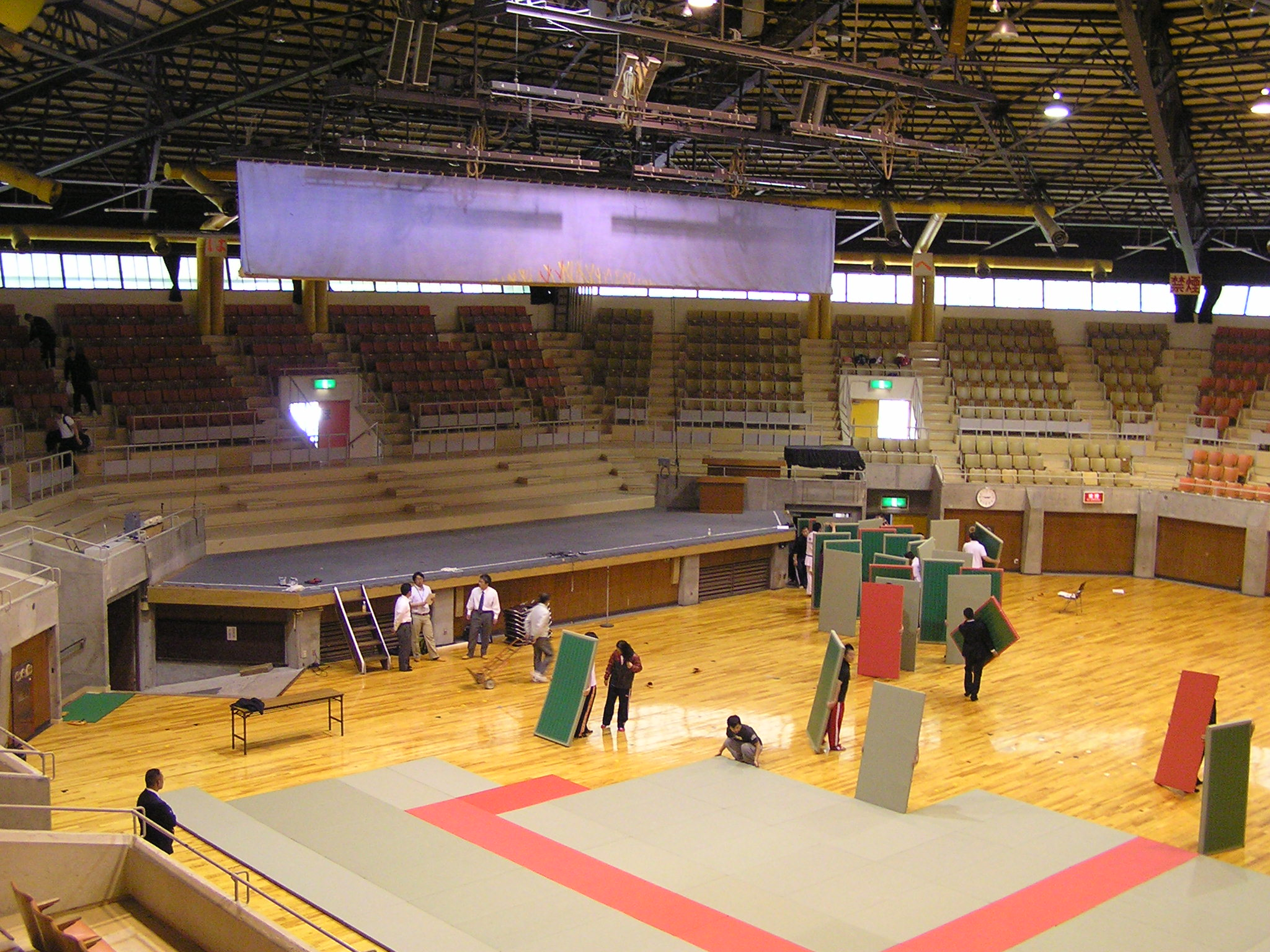 Inside in Okayama Nippon Budoukan